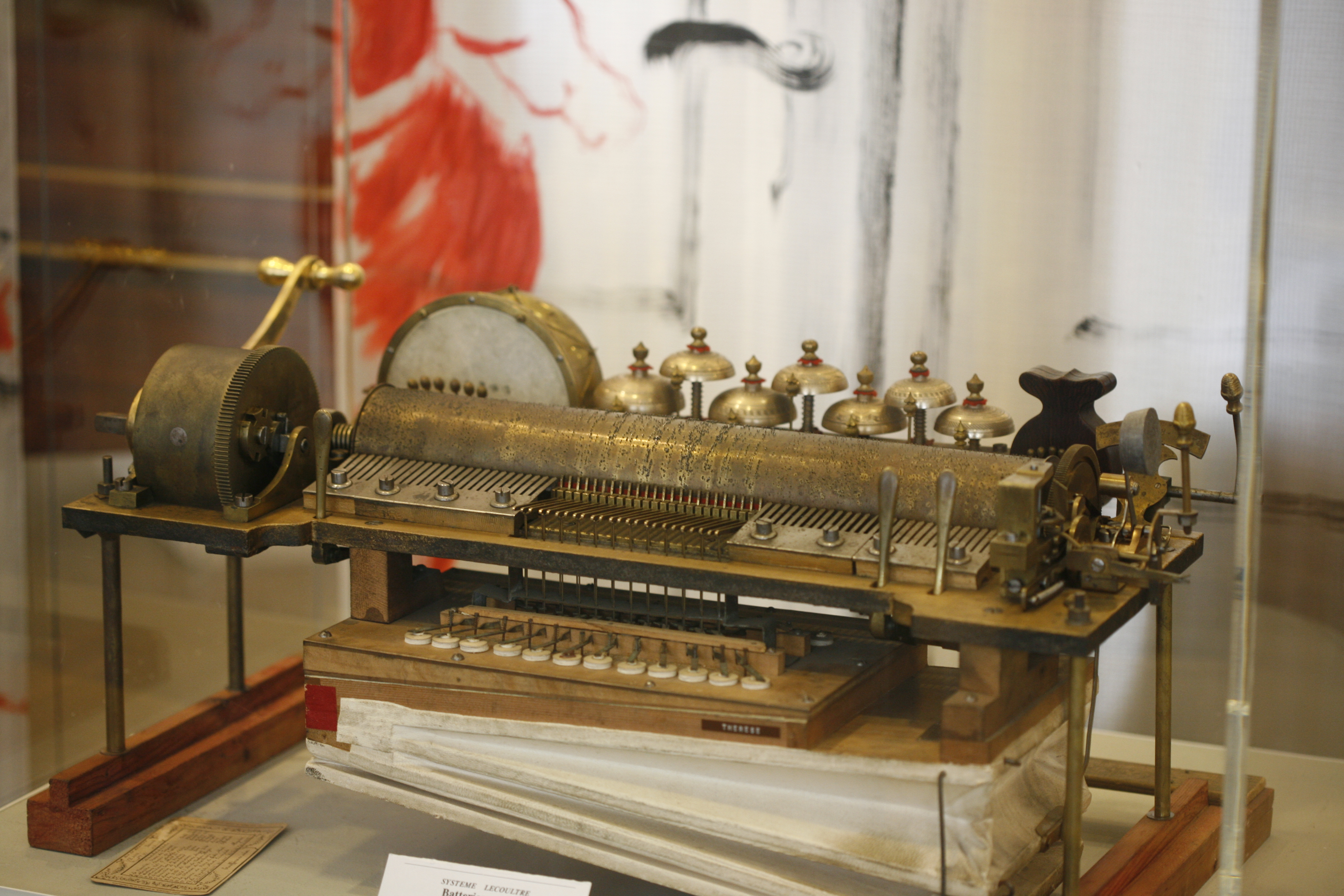 CIMA museum (Centre International de la Mécanique d'Art)